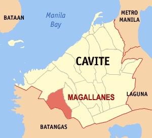 Map of Cavite showing the location of Magallanes